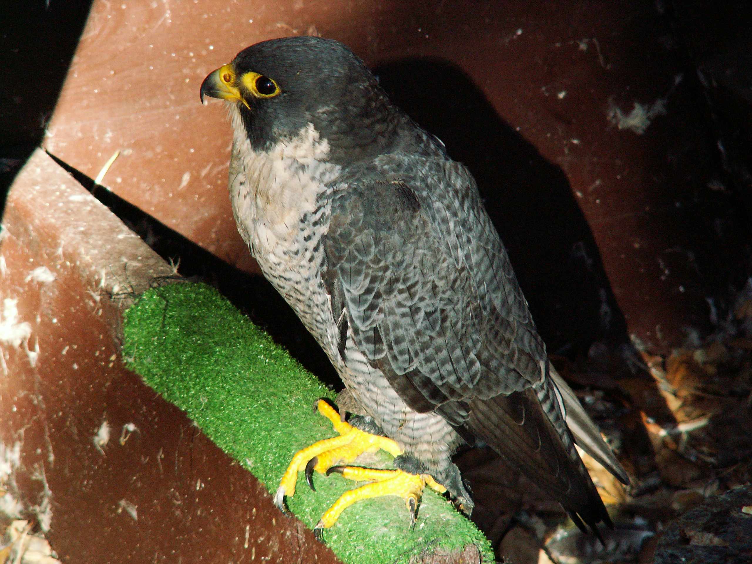 Photo of Peregrine Falcon taken at the zoo in Olomouc, Czech Republic. The zoo takes care of birds of prey, which have been found injured and thus incapable to survive in the wild.